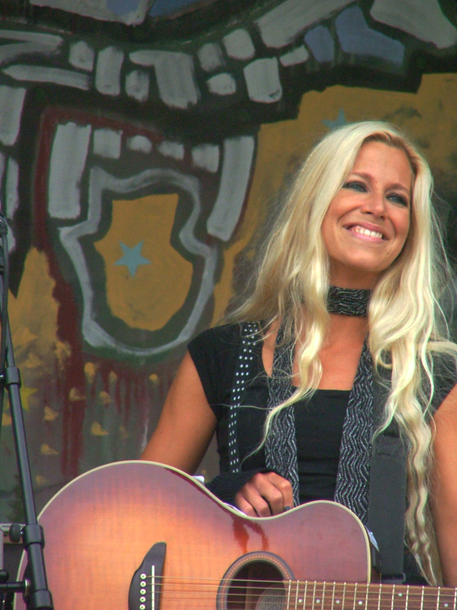 Nilla Nielsen, singer/songwriter, artist, producer from Sweden